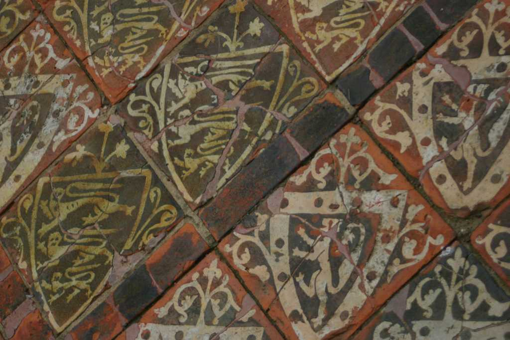 Medieval Tiles, Cleeve Abbey, Washford, Somerset